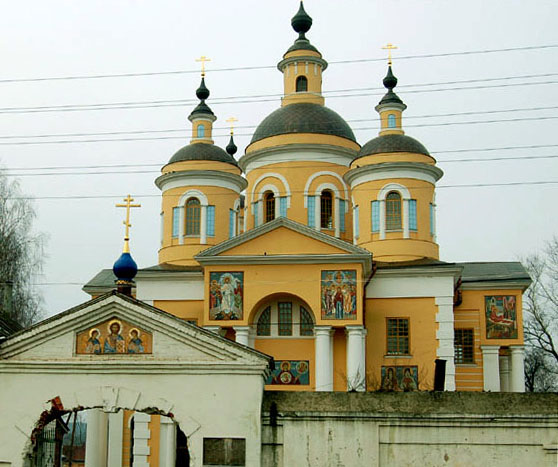 Vyshensky Uspensky Monastery (Ryazanskaya Oblast)